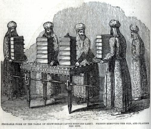 Priests in the Holy Temple, replacing the show bread (lechem ha-panim) for the week